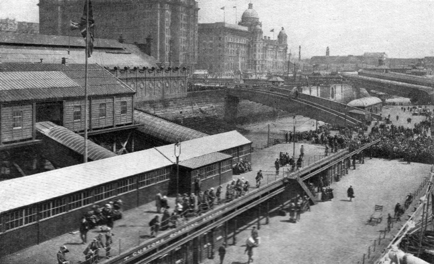 The Great Floating Landing-Stage at Liverpool Photo: Mersey Dock & Harbour Board